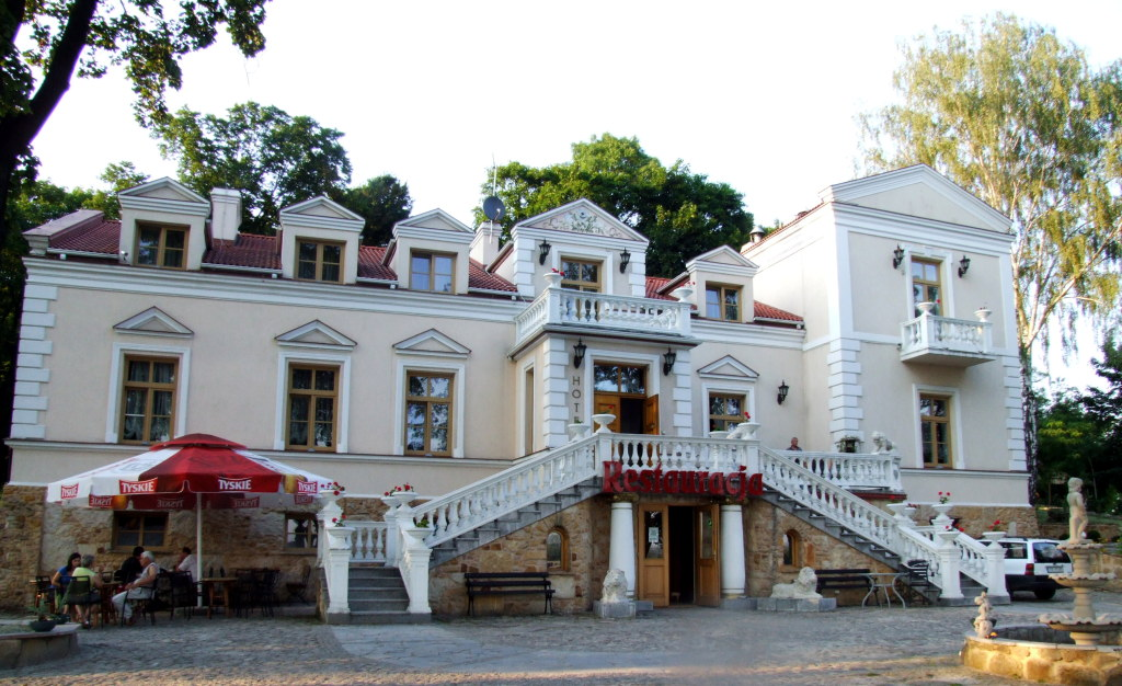 The count Wielopolski's family palace (currently hotel "Pałac Tarnowskich") in Kuznia district in Ostrowiec Swietokrzyski